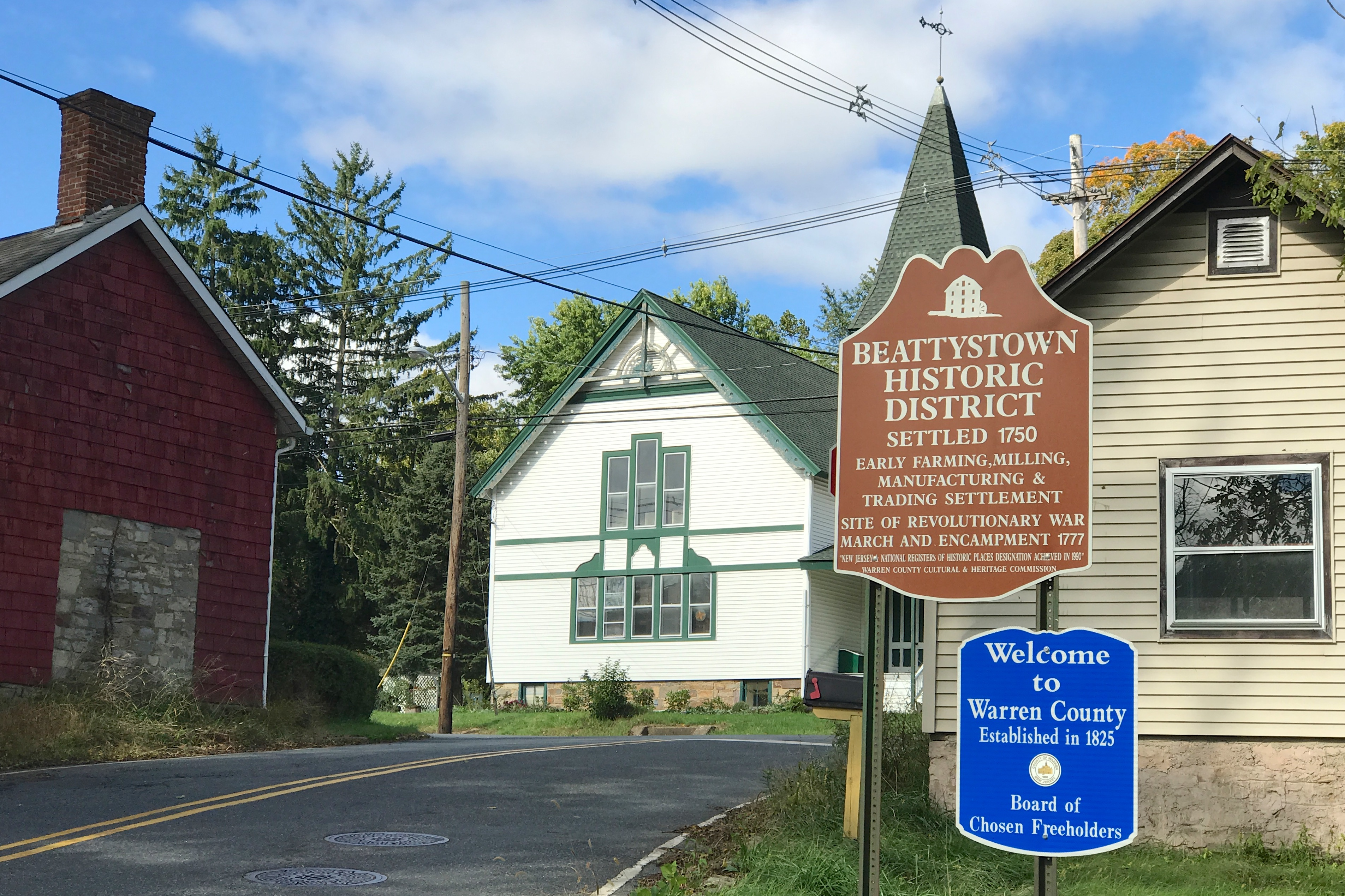 Historical information sign about the BeattystownHistoric District in Beattystown, New Jersey.